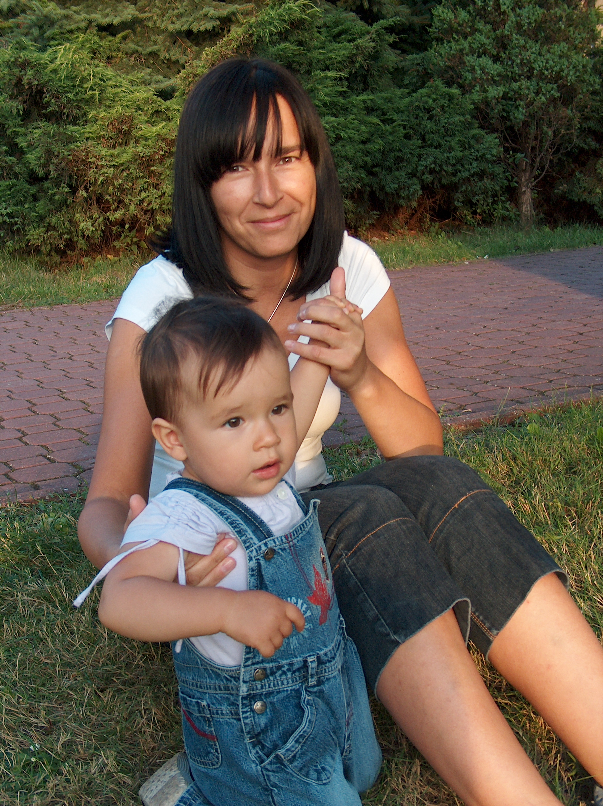 The mother and her daughter.